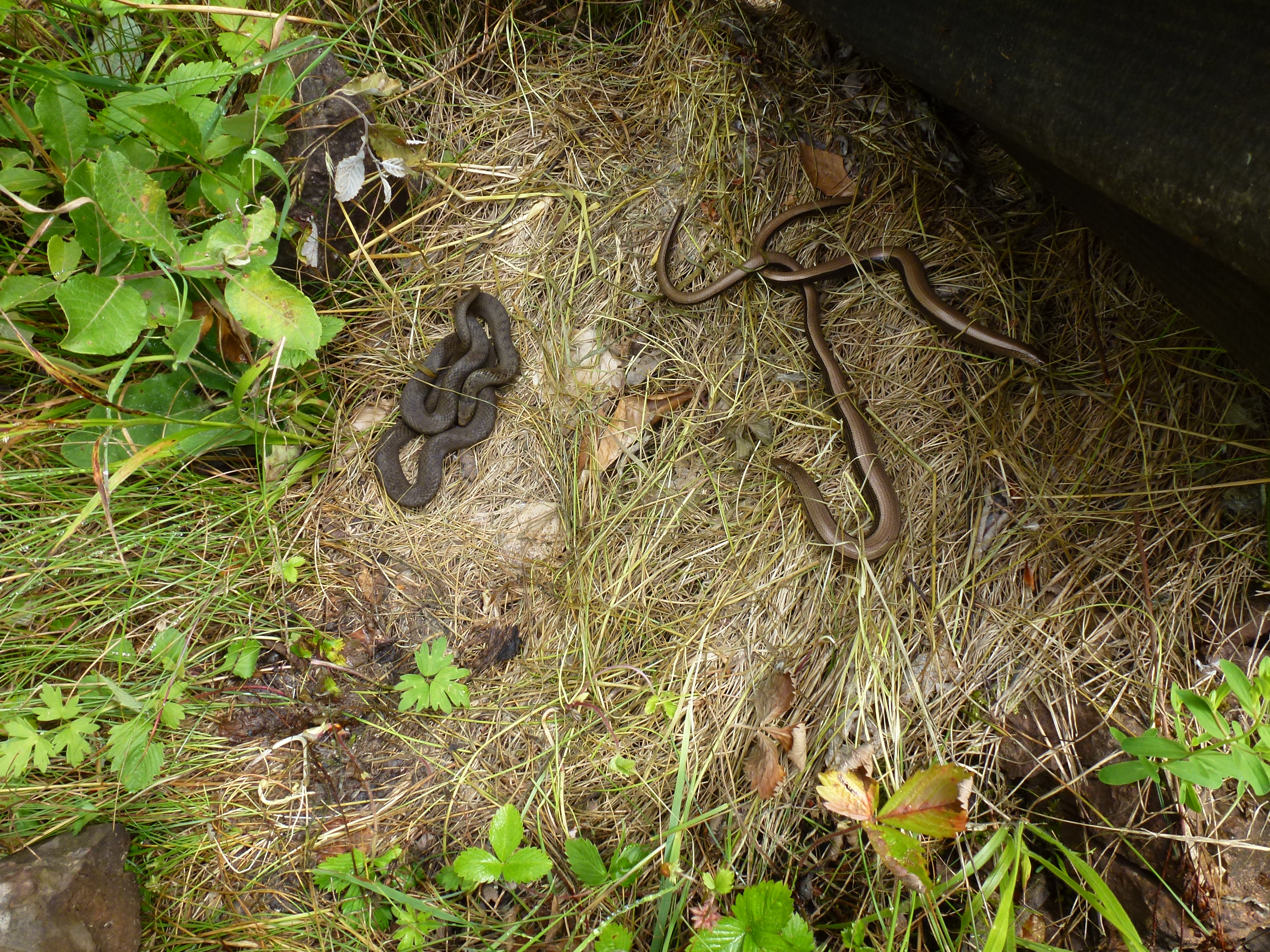 A Slow worm (Anguis fragilis) and two Smooth snakes (Coronella austriaca) under an Ondoline wall and roof corrugated sheet in the size 50 x 100 cm, which was used as a "snake board" to prove snakes and lizards near Marsberg - Giershagen, in the Sauerland (NRW).